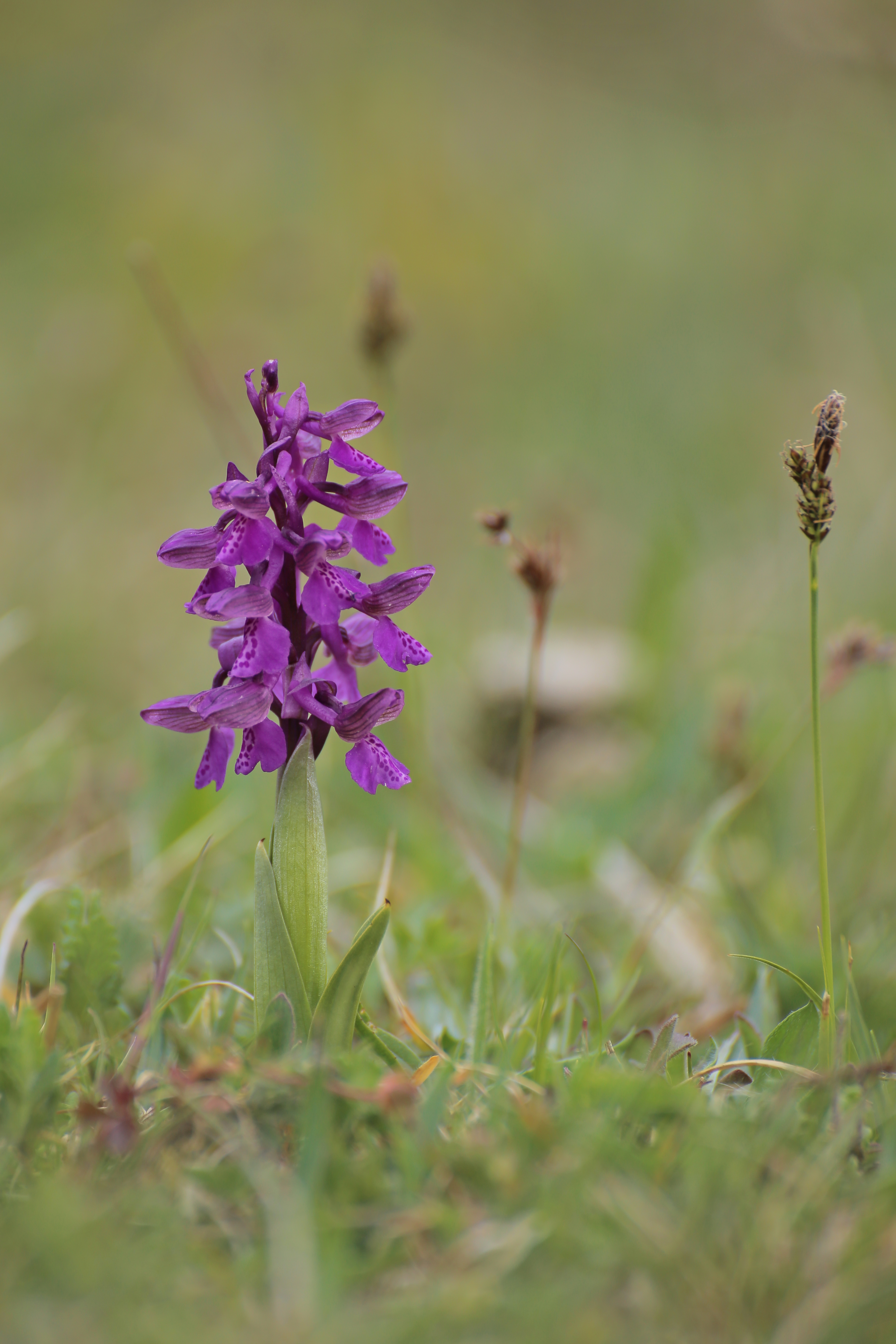 Green-winged orchid (Anacamptis morio) on a dry grassland at Wolfsberg bei Dietfurt, Germany.